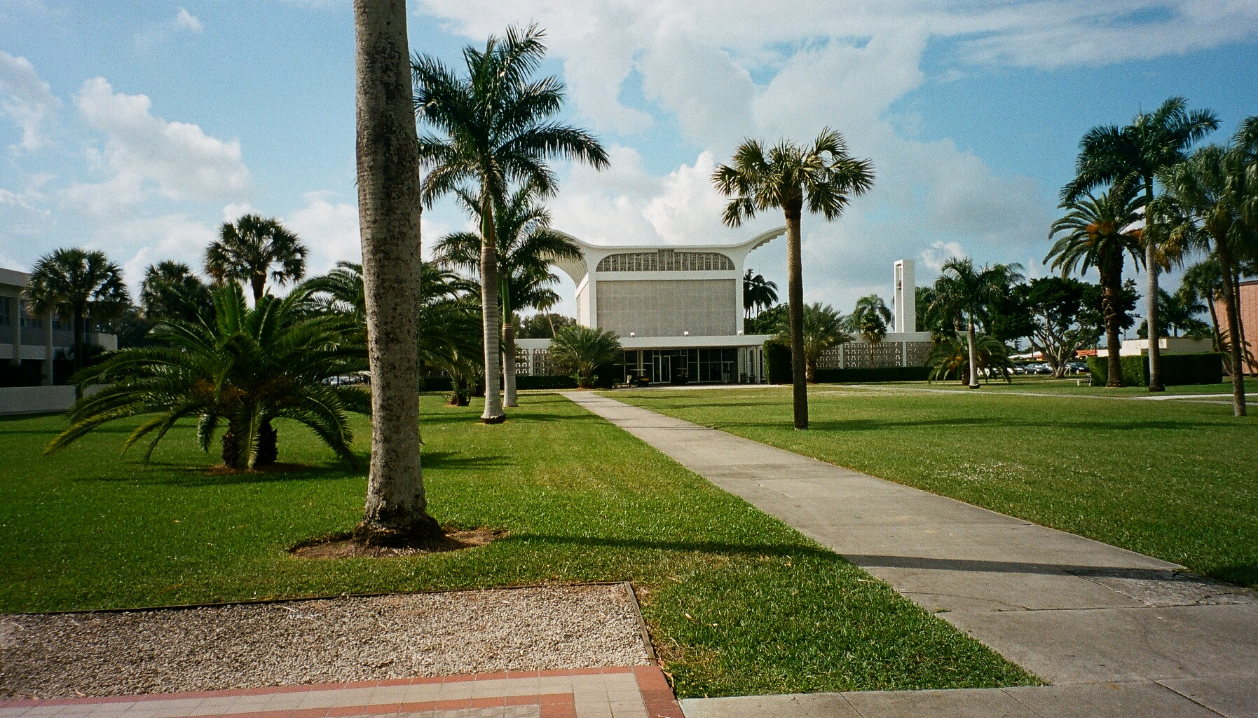 Saint John Vianney College Seminary